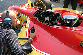 2004-02-06-04 Christian Boudon coaching Nelson Philippe in Champ Car at Mi-Jack Conquest.Jp..baudrand (talk) 14:24, 9 July 2011 (UTC) 2004-02-06-04 Christian Boudon coaching Nelson Philippe in Champ Car at Mi-Jack Conquest.Jp..baudrand (talk) 14:24, 9 July 2011 (UTC)